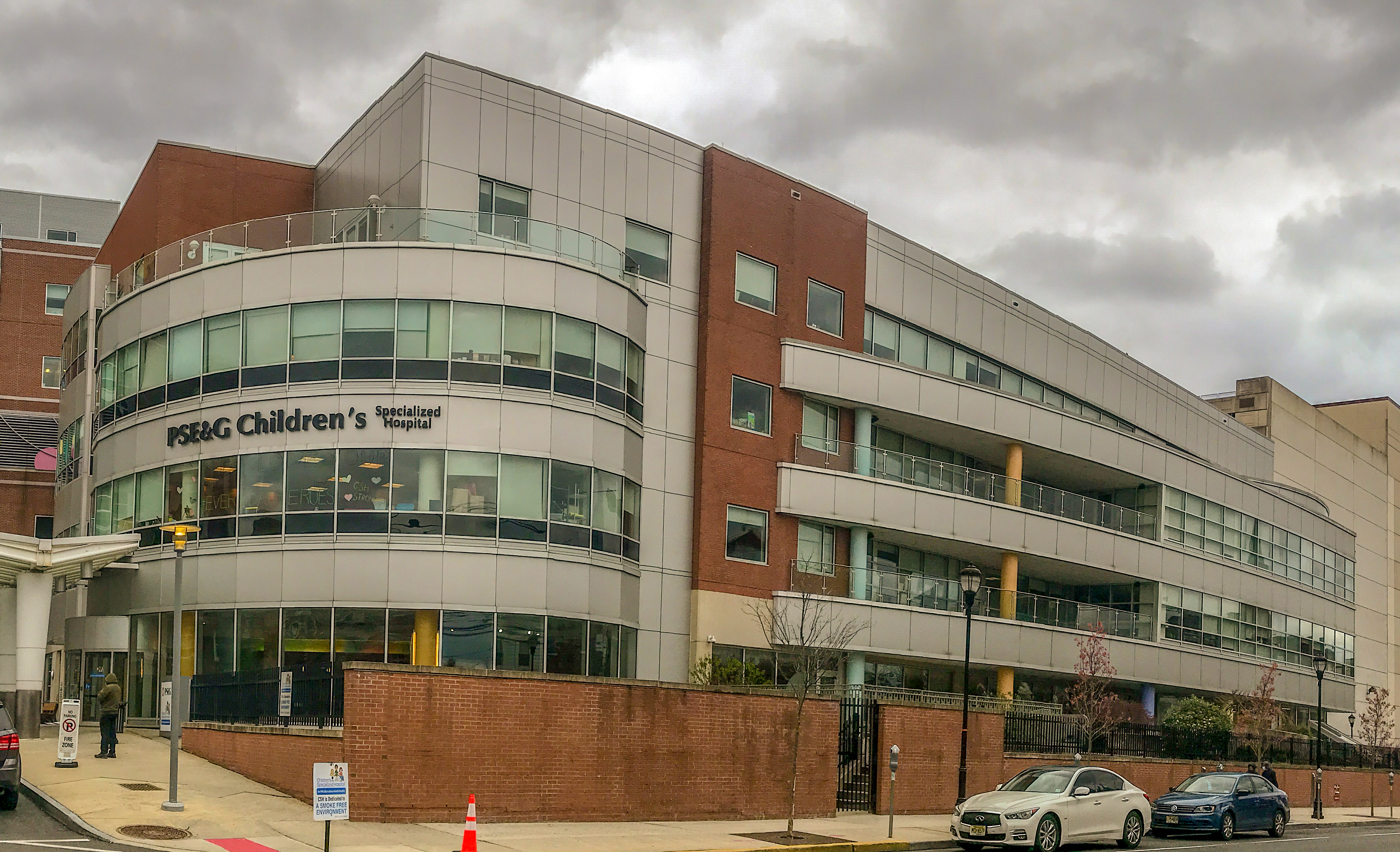 The Entire Children's Specialized Hospital New Jersey building in New Brunswick, NJ